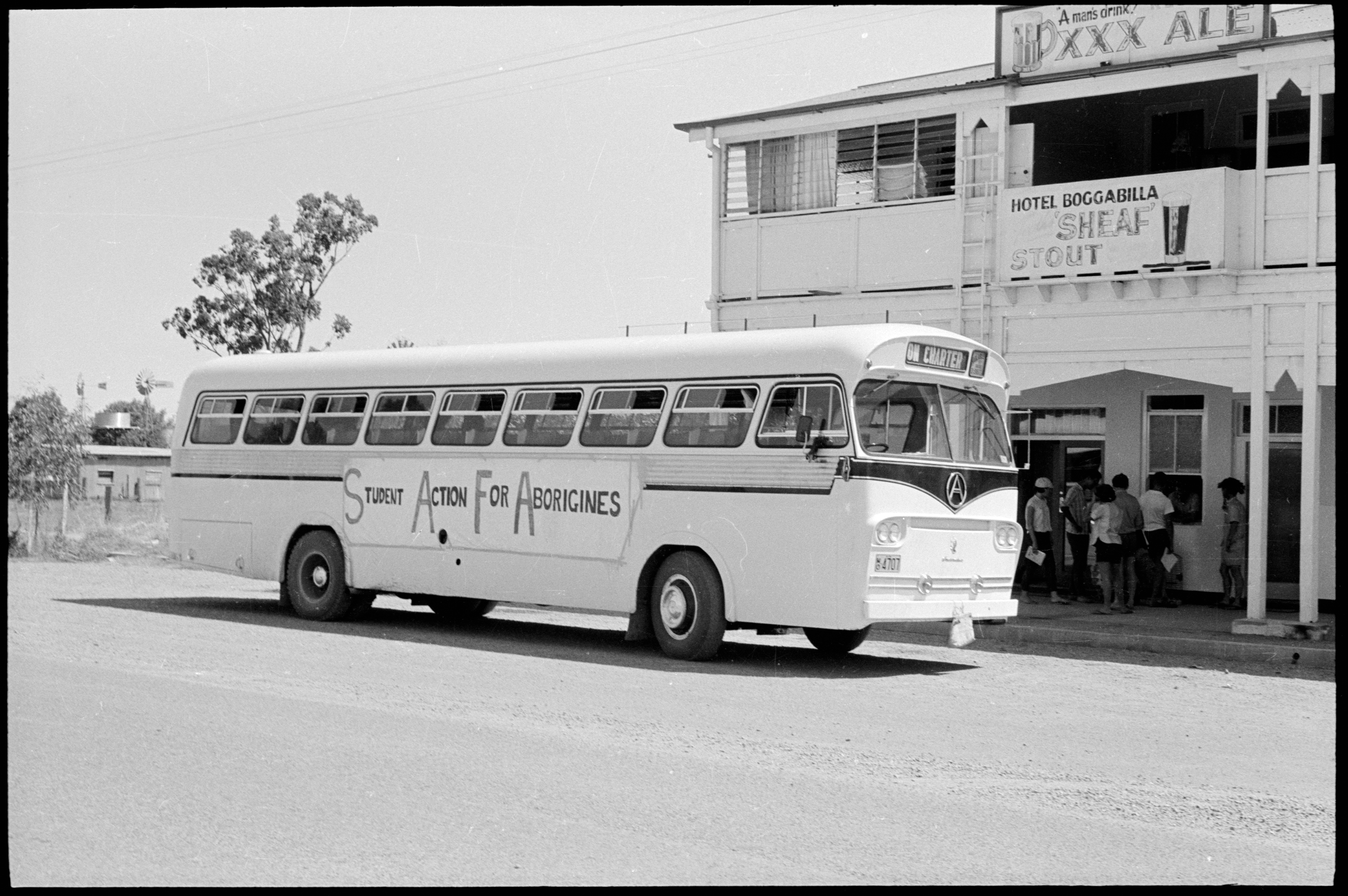 Student Action for Aborigines' bus ouside the Hotel Bogabilla in February 1965 From the collection of the State Library of New South Wales